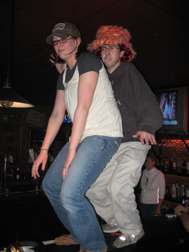 A man and woman grinding.